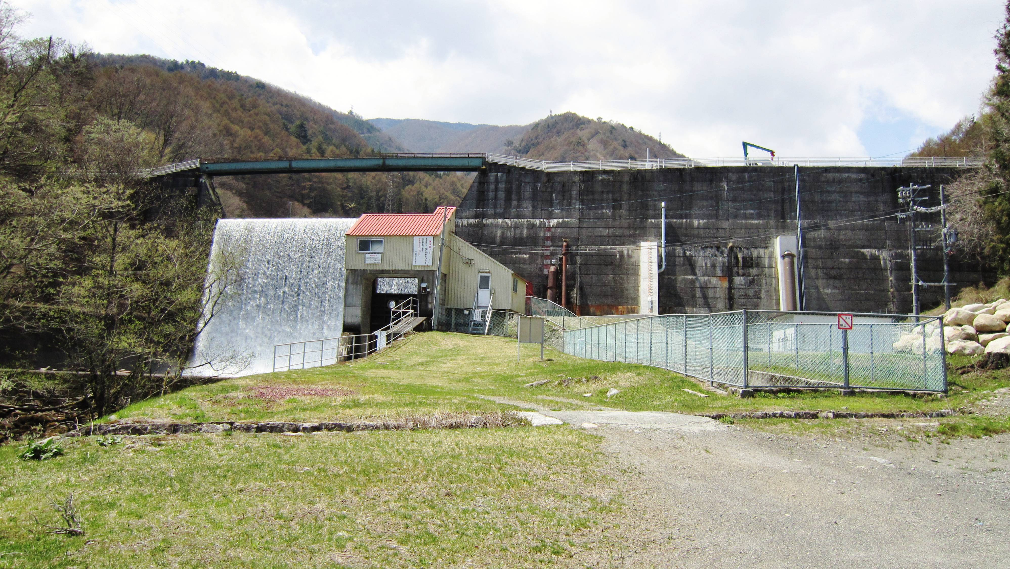 Susado Dam.